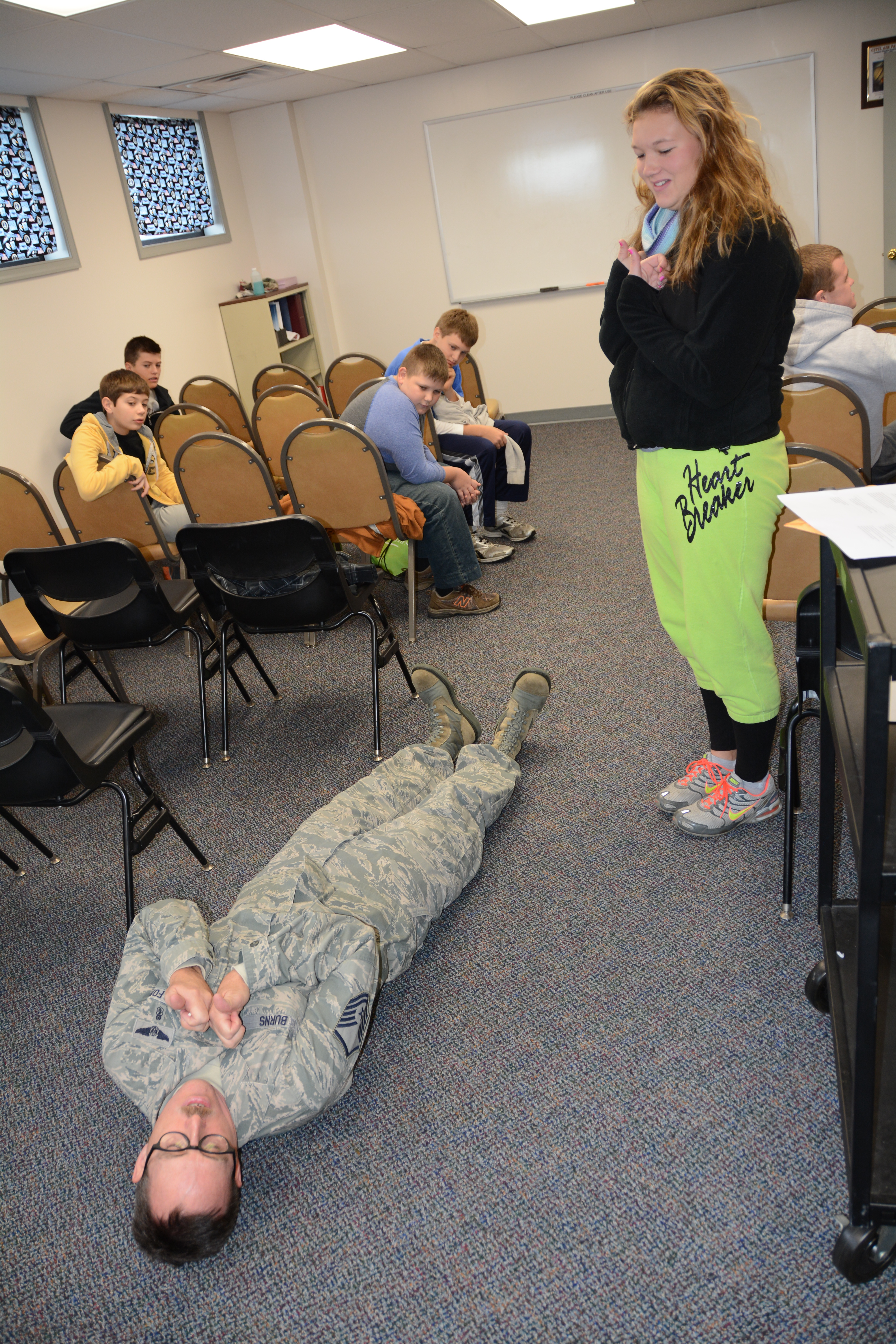 Master Sgt. Robert Burns, 512th Aerospace Medicine Squadron, demonstrates for Delaware Civil Air Patrol cadet Brianna Boyd, how to play a victim who has had serious head trauma during a training exercise Nov. 2, 2014, at Dover Air Force Base, Del. To assist the 512th AMDS in the training exercise, she and several other cadets were dressed with prosthetics and fake blood that simulated various injuries, including punctured eyes, open bone fractures and lacerations. (U.S. Air Force photo/Senior Airman Joe Yanik)